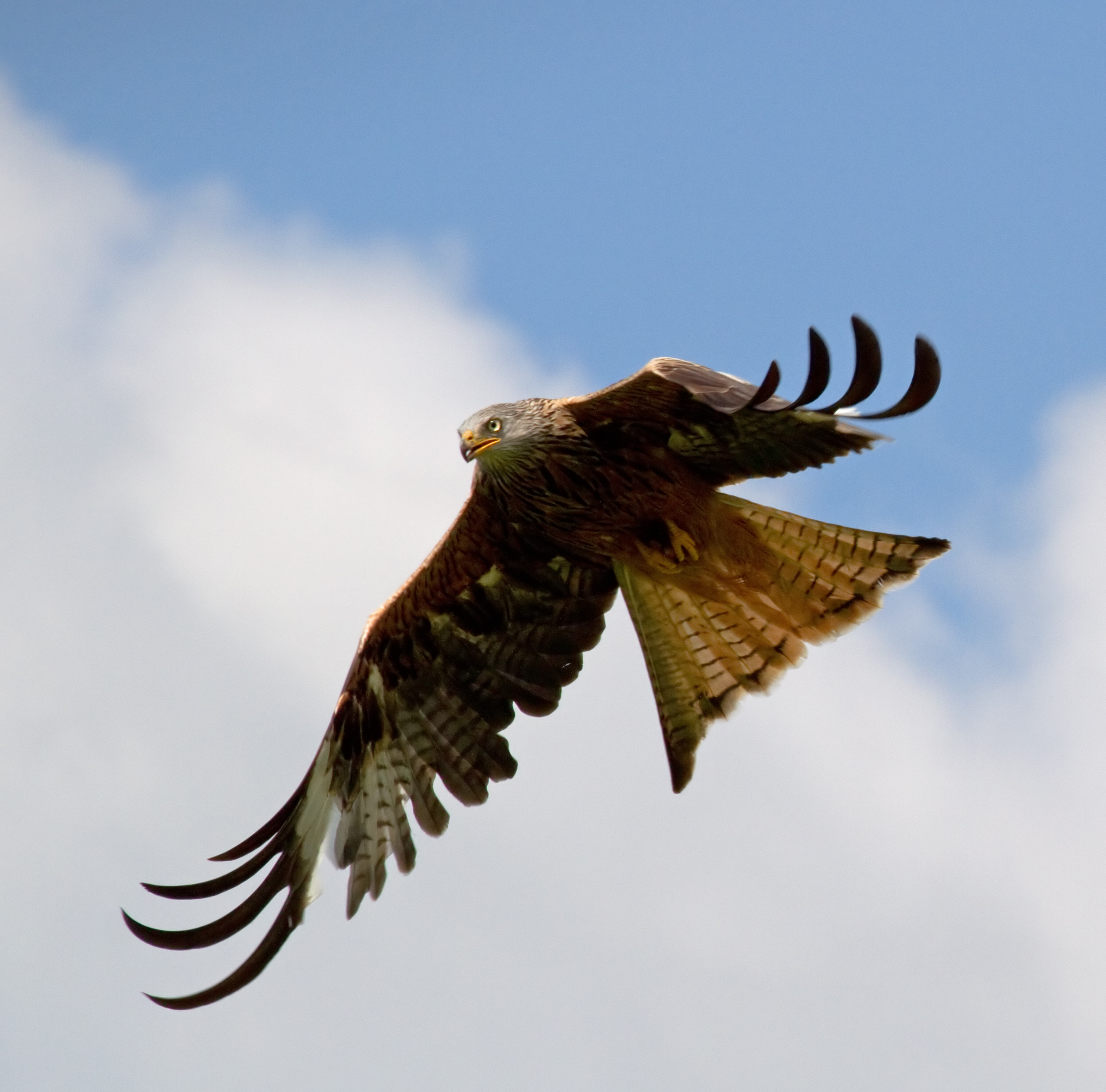 We went to the Kite feeding centre in Rhayader to watch the Red Kites. I took hundreds of photos, but have uploaded a selection.